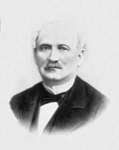 Pierre-Joseph Célestin Baume (1810–1880), Founder of Baume & Mercier